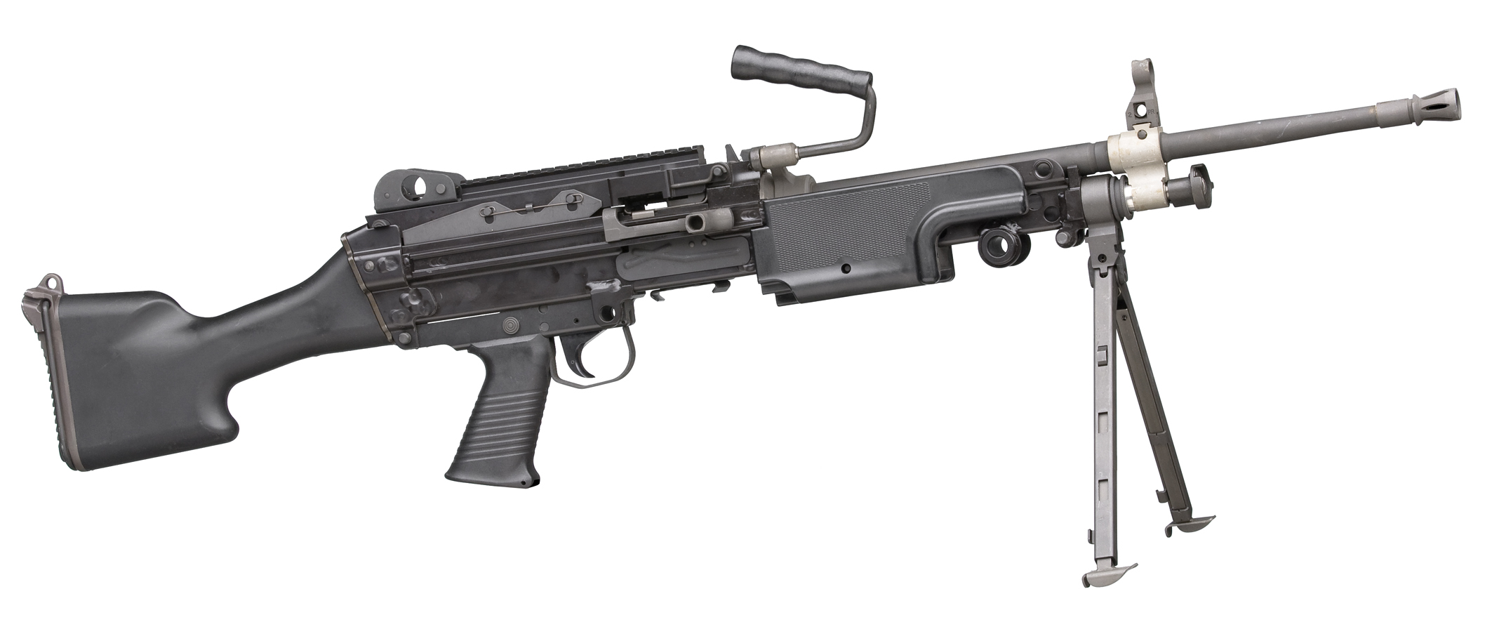 FN MINIMI Standard Right